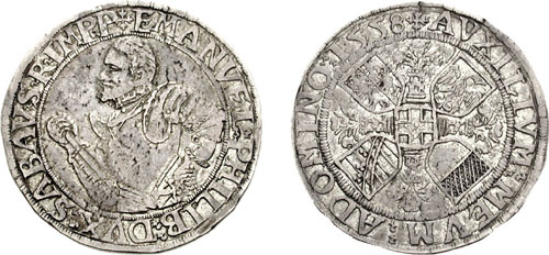 Italia, Savoia. Emanuele Filiberto. 1553-1580. AR Tallero (28.25 g, 11h). Zecca di Aosta o di Vercelli. Datato 1558. +EMANVEL 22 PHILIB 22 DVX 22 SABAV 2 S 2 R2 IMP 2 P, Busto armato di Emanuele sin., con bastone e spada. +AVXILIVM 22 MEVM 22 A DOMINO 221558, insegna cruciforme di Savoia. Al centro la crode dei Savoia e intorno gli stemmi di : Sacro Romano Impero, Monferrato, Sassonia e Lusignano, intervallati da piume. Italy, Savoy. Emmanuel Philibert. 1553-1580. AR Tallero[ (28.25 g, 11h). Aosta or Vercelli mint. Dated 1558. +EMANVEL 22 PHILIB 22 DVX 22 SABAV 2 S 2 R2 IMP 2 P, half-length armored bust of Emanuele left, holding baton and sword +AVXILIVM 22 MEVM 22 A DOMINO 221558, cruciform coat-of-arms of Savoy, the HRE, Monferrat, Sassonia and Lusignan, with plumed towers between. S. Cudazzo, Casa Savoia (Pavia, 2005), 502 (this coin); CNI I p. 191, 39; Morosini III, p. 147, 6; Davenport 8370.